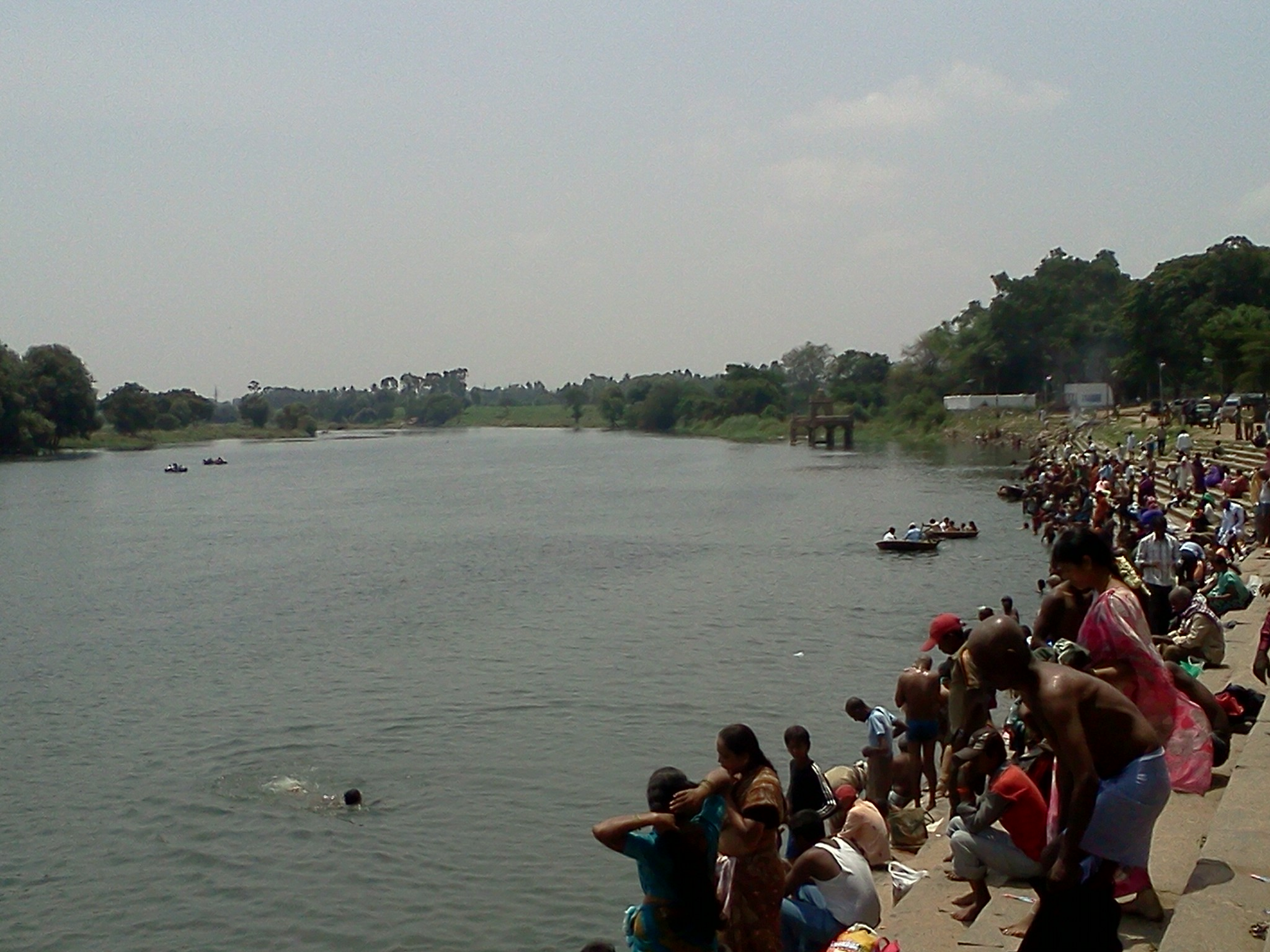 Kapila river ghat at nanjanagudu, karnataka